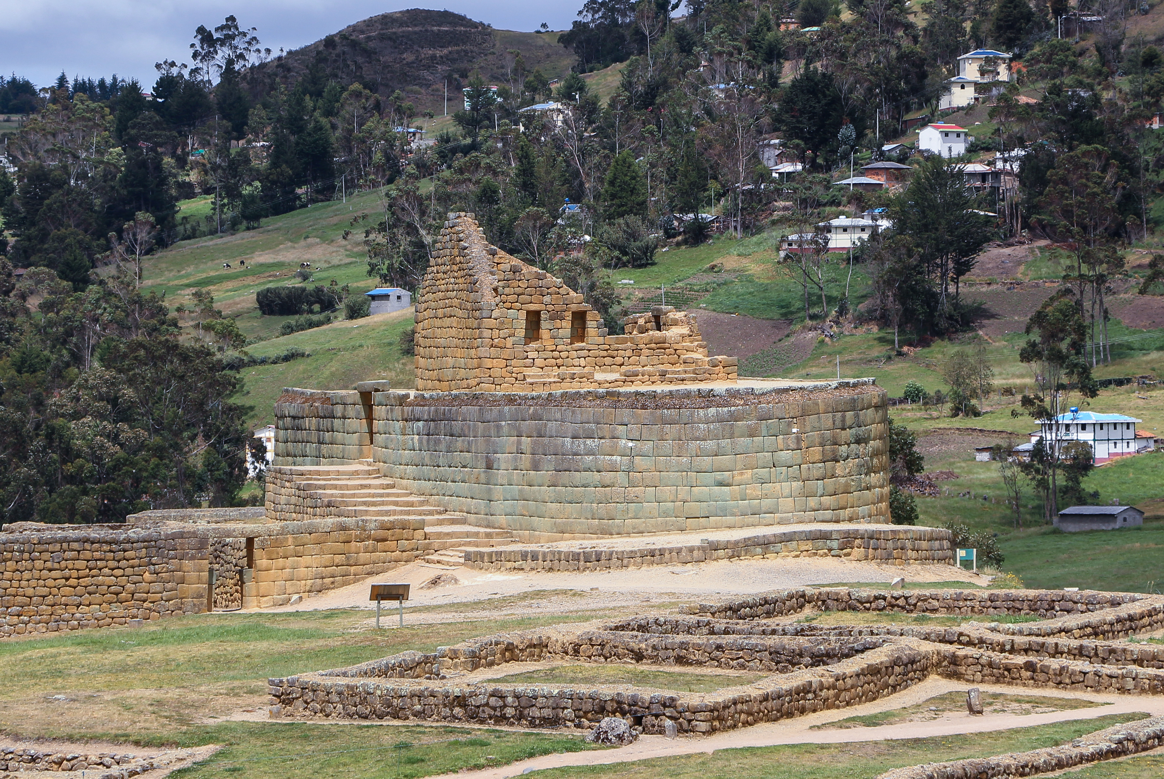 The "Temple of the Sun" of Ingapirca, Ecuador